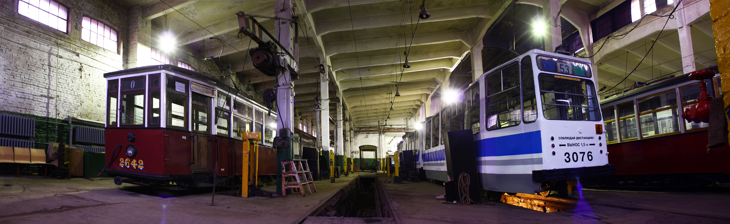 Vasileostrovskiy tram-park depot 3